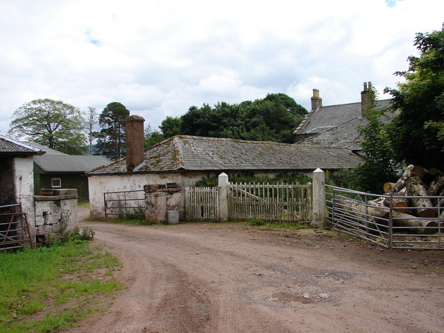 Coshogle Farm The lane from the Enterkinfoot (A76) climbs and winds up to Coshogle, site of a castle, but now just a neglected farmyard with the farmhouse mainly hidden behind the farm buildings.